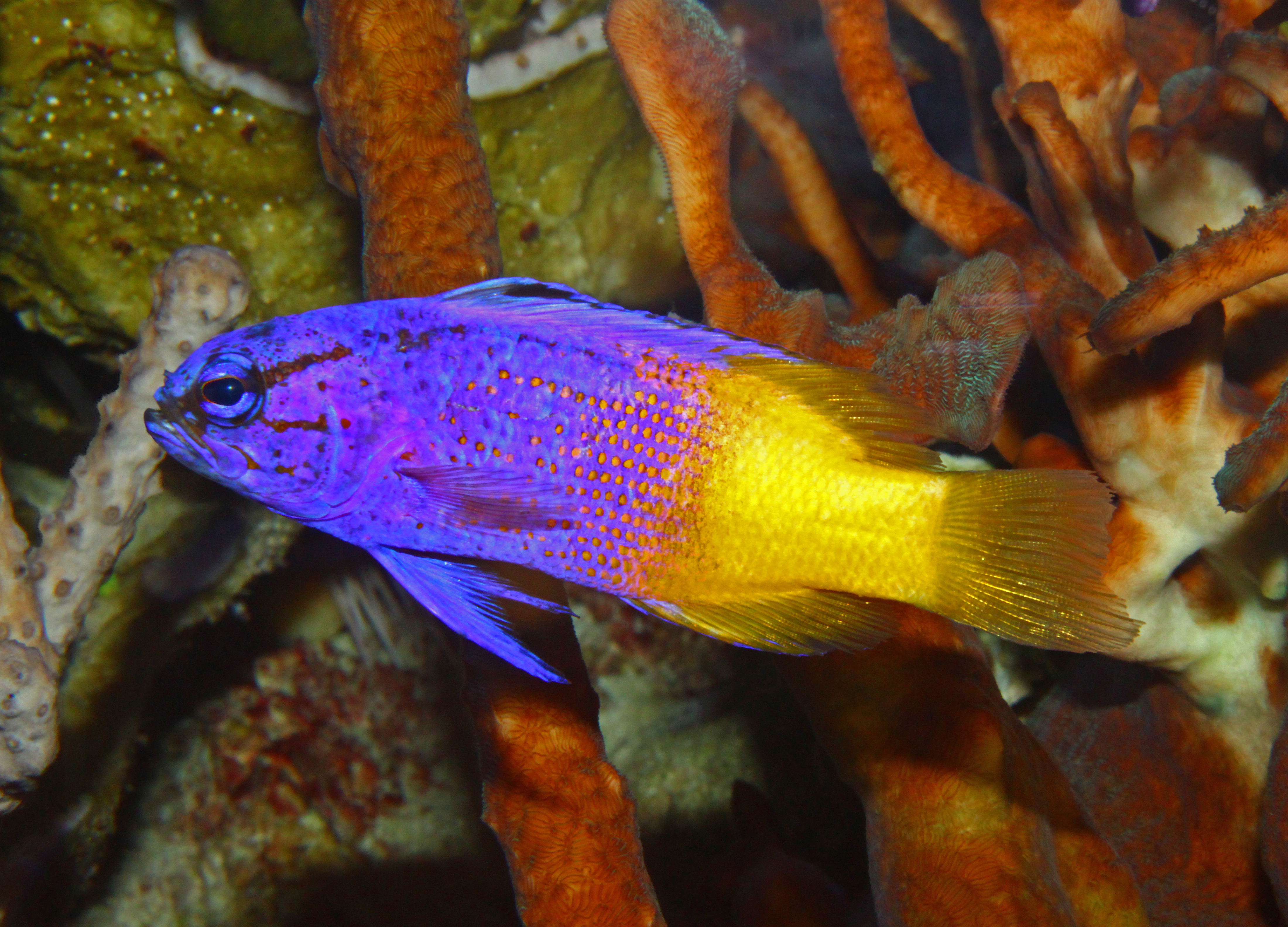 Gramma loreto, Grammatidae, Royal Gramma; Staatliches Museum für Naturkunde Karlsruhe, Germany.